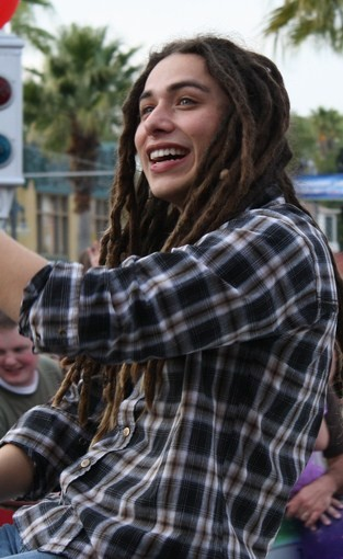 Jason Castro at the American Idol Experience premiere. Hollywood Studios, Florida.